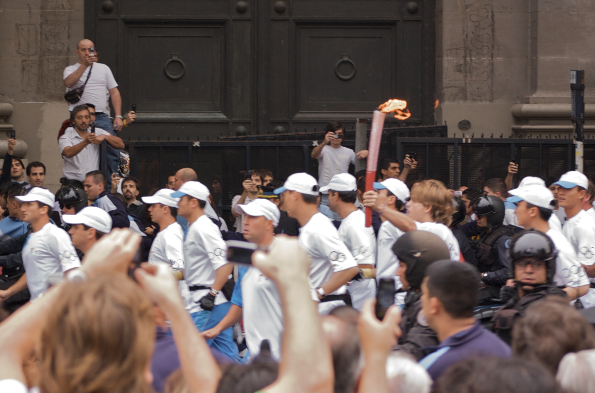 2008 Summer Olympics torch relay in Buenos Aires.